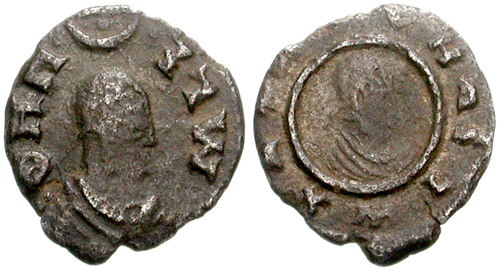 Coin of the Axumite king Wazeba